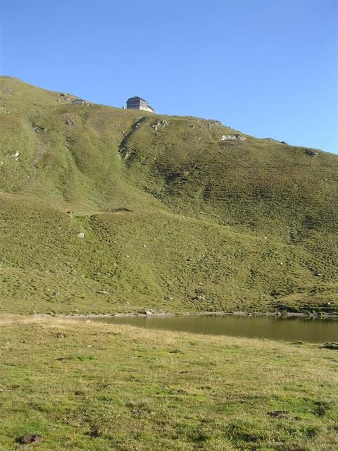 Sillianer Hütte above the Fuellhorn lake in the Carnic Alps